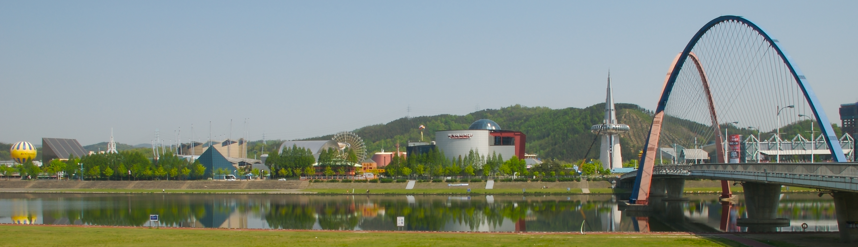 Photograph of the Expo Science Park in Daejeon, South Korea. It was taken from across Gapcheon.